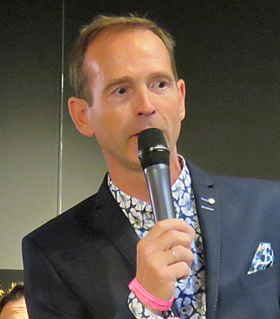 Siep de Haan (born 1958), in 1996 founder of the Amsterdam Pride, here at the opening of Arts & Culture Pride 2017.